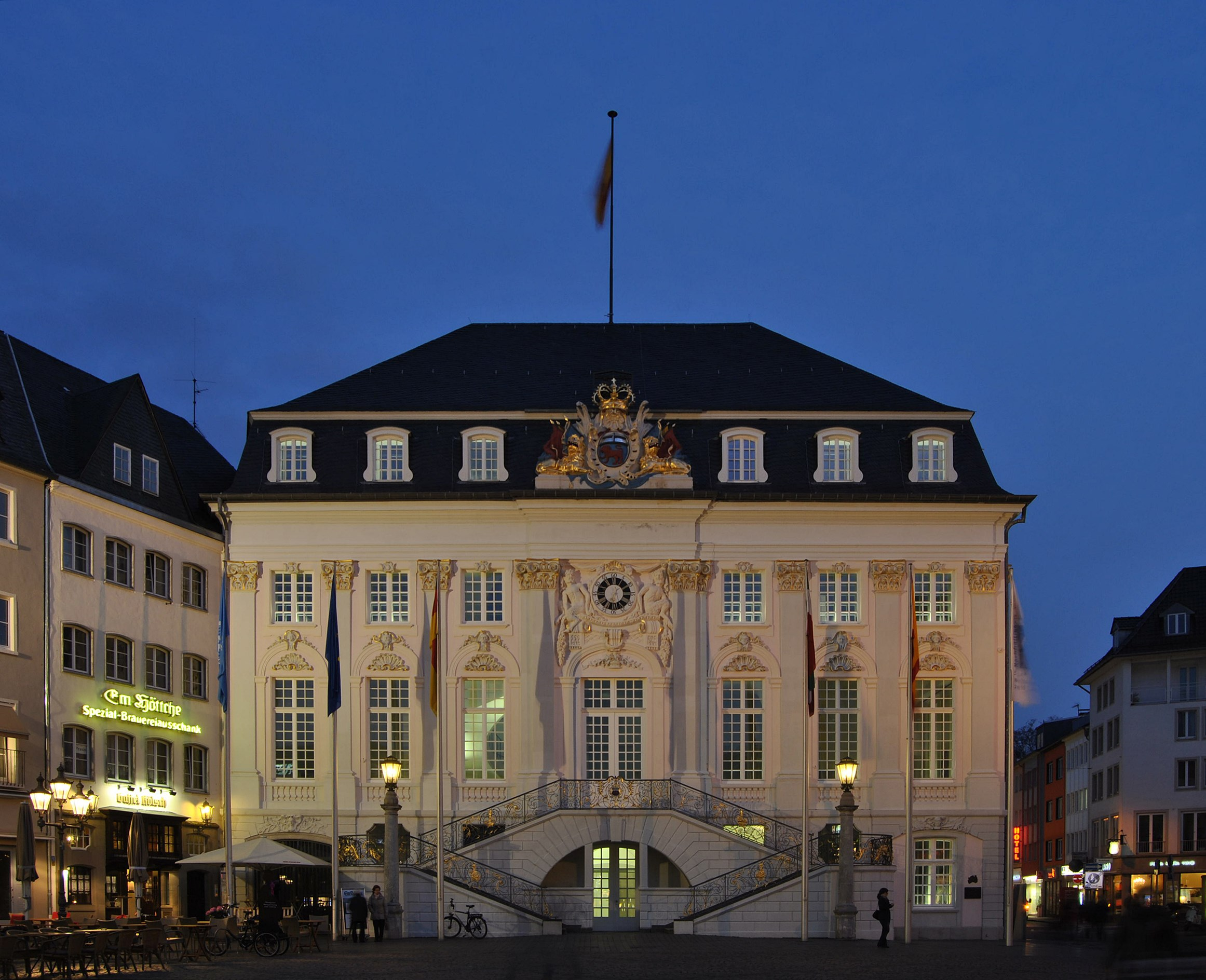 Bonn (North Rhine-Westphalia, Germany) – Old City Hall during the blue hour This image shows a heritage building in Germany, located in the North Rhine-Westphalian city Bonn (no. 950). This photograph was taken with a Nikon D3000